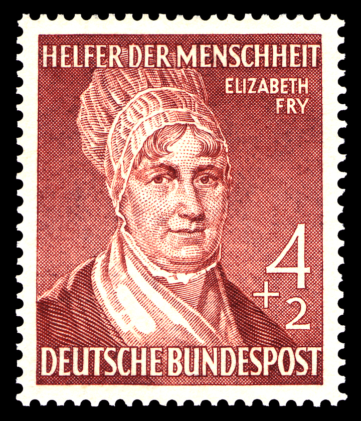 Social welfare stamp series 1952, Elizabeth Fry (1780-1845) Graphics by Schnell Ausgabepreis: 4+2 Pfennig First Day of Issue / Erstausgabetag: 1. Oktober 1952 Michel-Katalog-Nr: 156